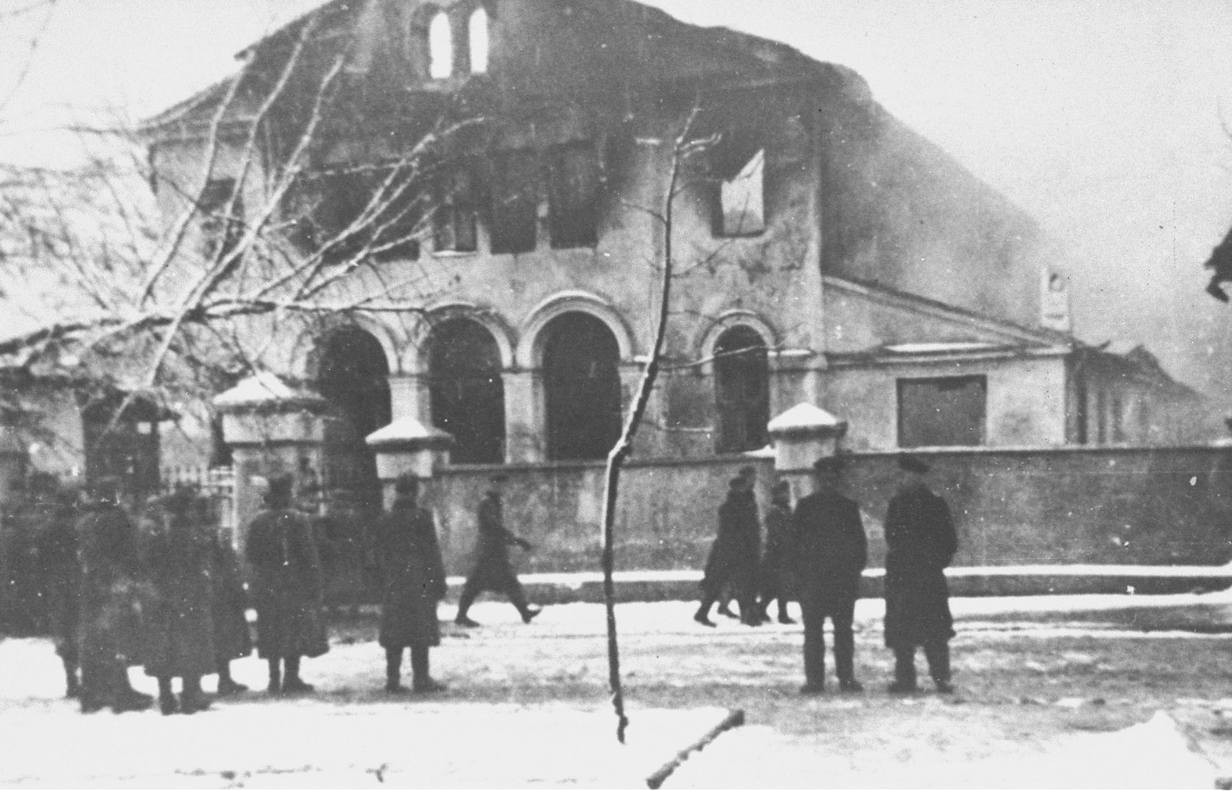 Siedlce destroyed synagogue in 1939